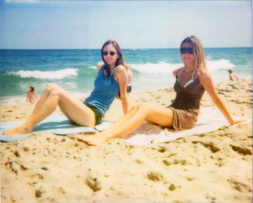 Two women on the Jersey ShoreBeach bunnies